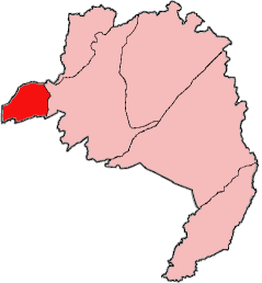 Map of Lofa County, Liberia showing Vahun District; created with the GIMP. Made by User:Acntx.